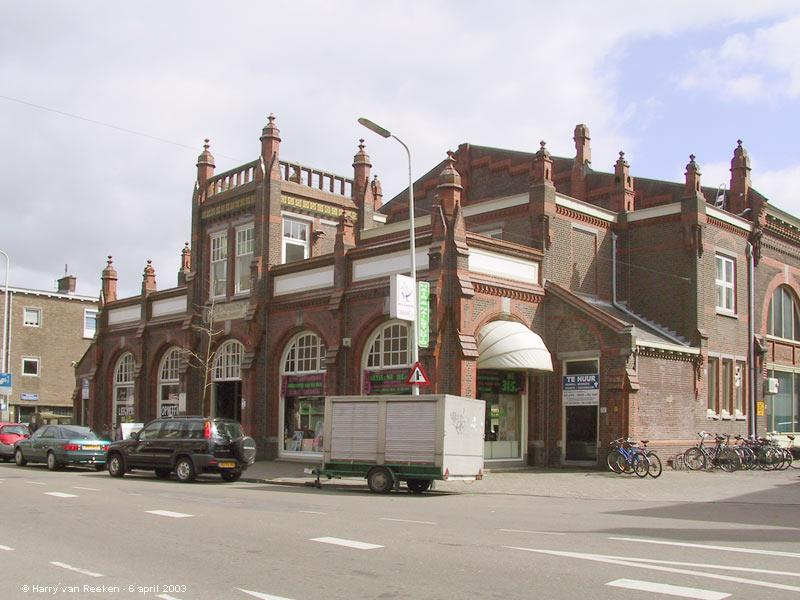 Nederlands Sportpark, Theresiastraat 145, The Hague